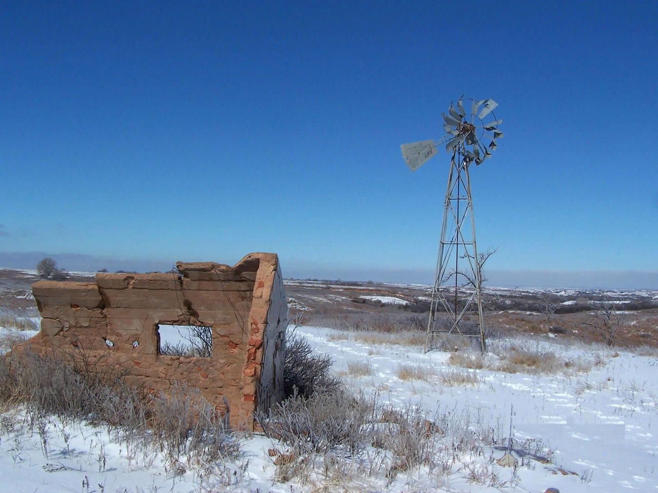 This is a Dempster 12A windmill, located adjacent to an adobe homestead structure's ruins — in Unit 76 of the Black Kettle National Grassland, western Oklahoma. The wind driven water pump was the lifeblood of the High Great Plains and settlement in general. Too much wind will devastate a windmill.